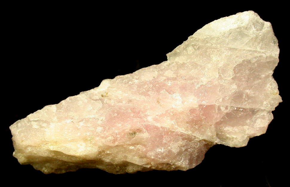 Eucryptite Locality: Harding Mine (Harding pegmatite), Picuris District, Taos County, New Mexico, USA Original description: A 4.0 by 2.0 cms pinkish mass. JSS specimen and photo.